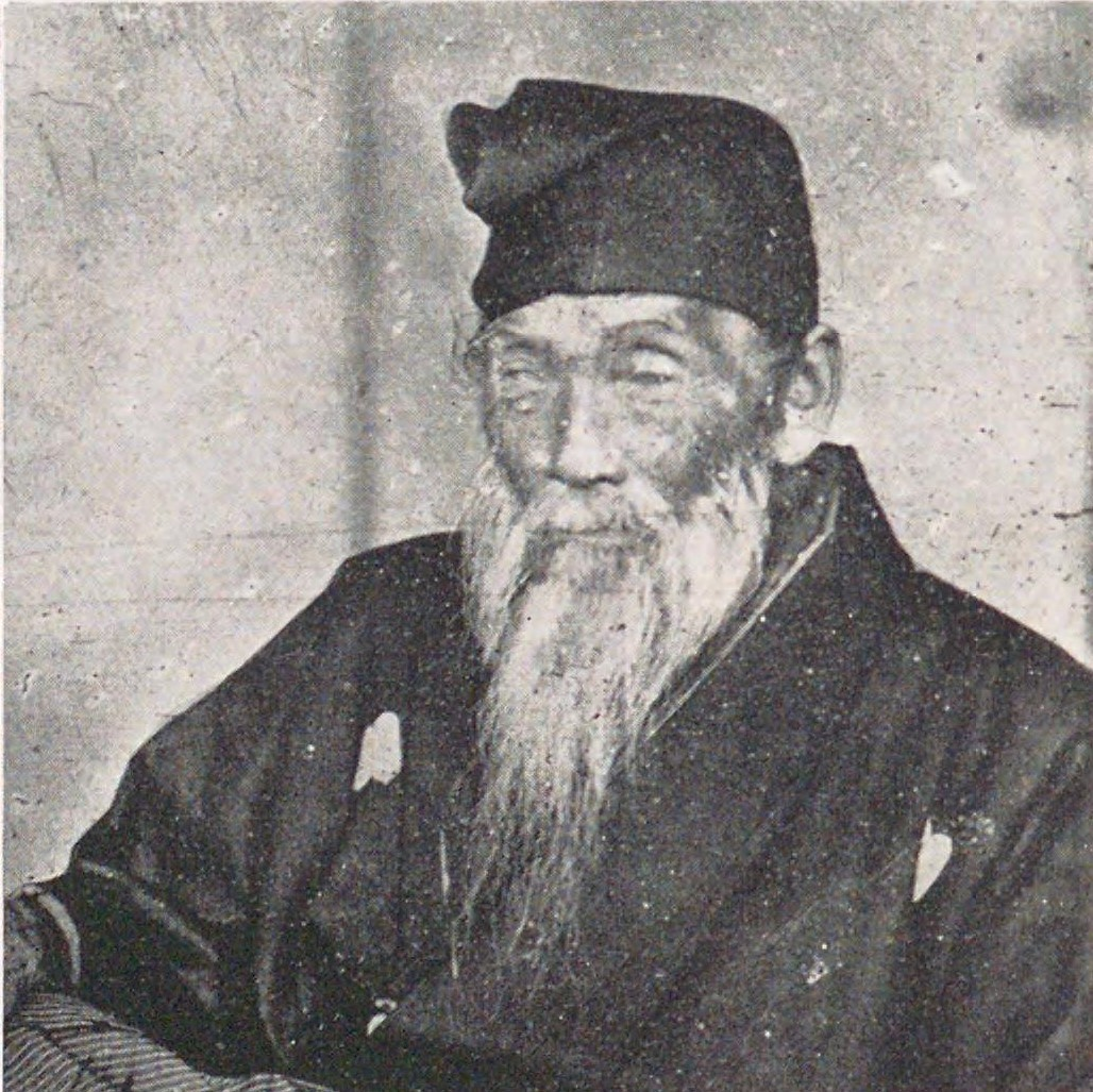 Kikuchi Yōsai, a nihonga painter.